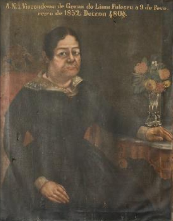 Portrait of Maria Zeferina Azevedo, Viscountess of Geraz do Lima (1801-1852). In the collection of the Congregação de Nossa Senhora da Caridade, Viana do Castelo, Portugal.